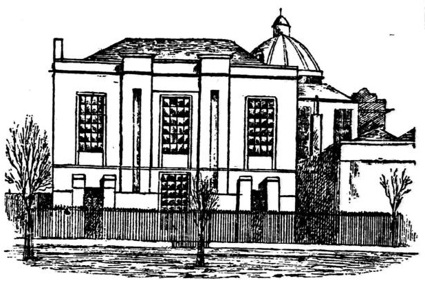 A side elevation view of Montrose Academy, Angus, in 1898, from a drawing published in the Dundee Courier.